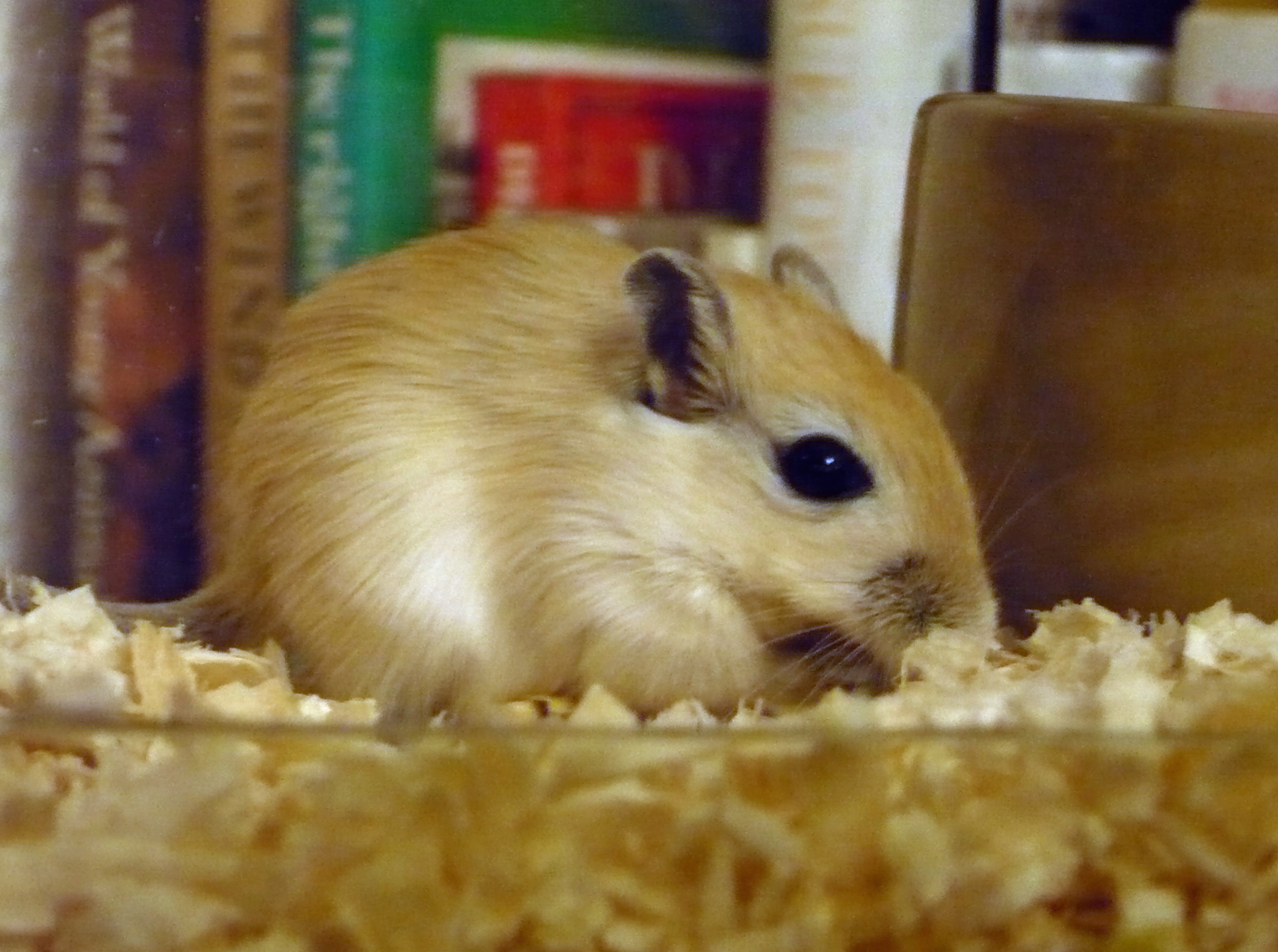 A young gerbil sitting by the food bowl to eat.